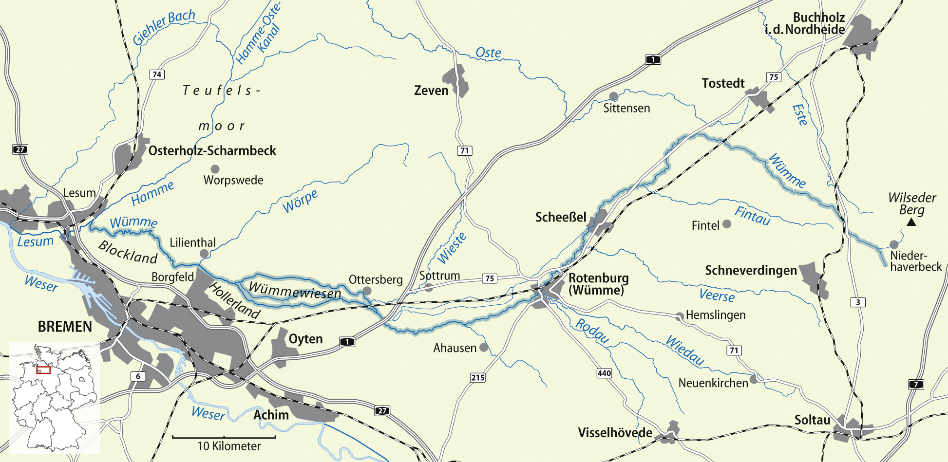 Map of river Wümme, Germany